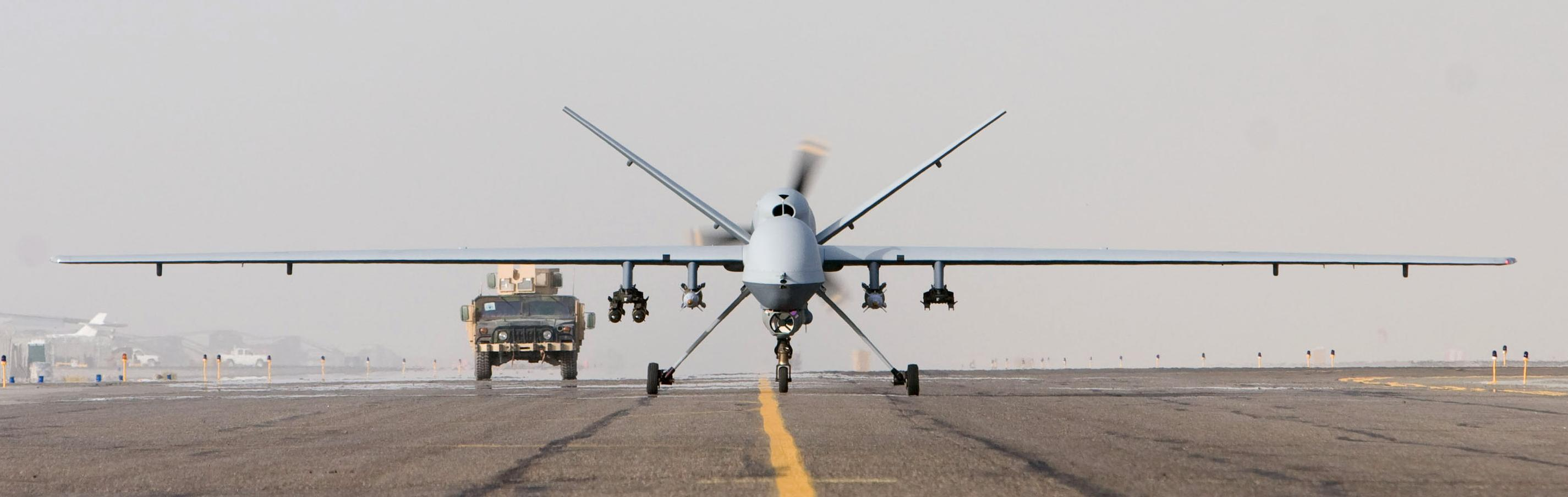 An MQ-9 Reaper taxis after a mission in Afghanistan.